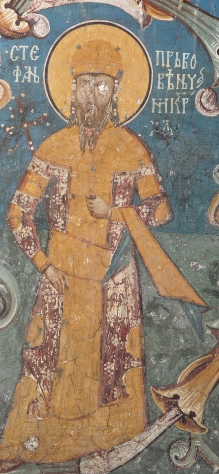 Detail of fresco Loza Nemanjića,Stefan Prvovenčani,Visoki Dečani,Serbia.